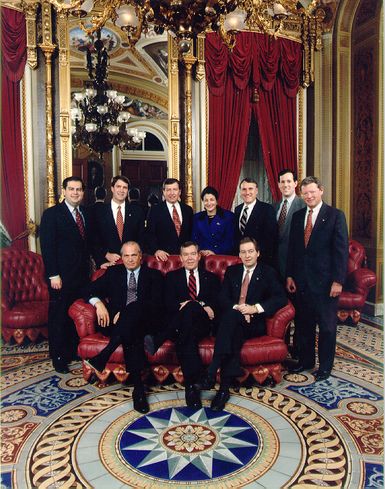 This photo was taken at the beginning of Senator Thomas' first term in the Senate. From left to right: Senators Spencer Abraham, Bill Frist, John Ashcroft, Olympia Snowe, Jon Kyl, Rick Santorum, James Inhofe, Fred Thompson, Craig Thomas,and Rod Grams.